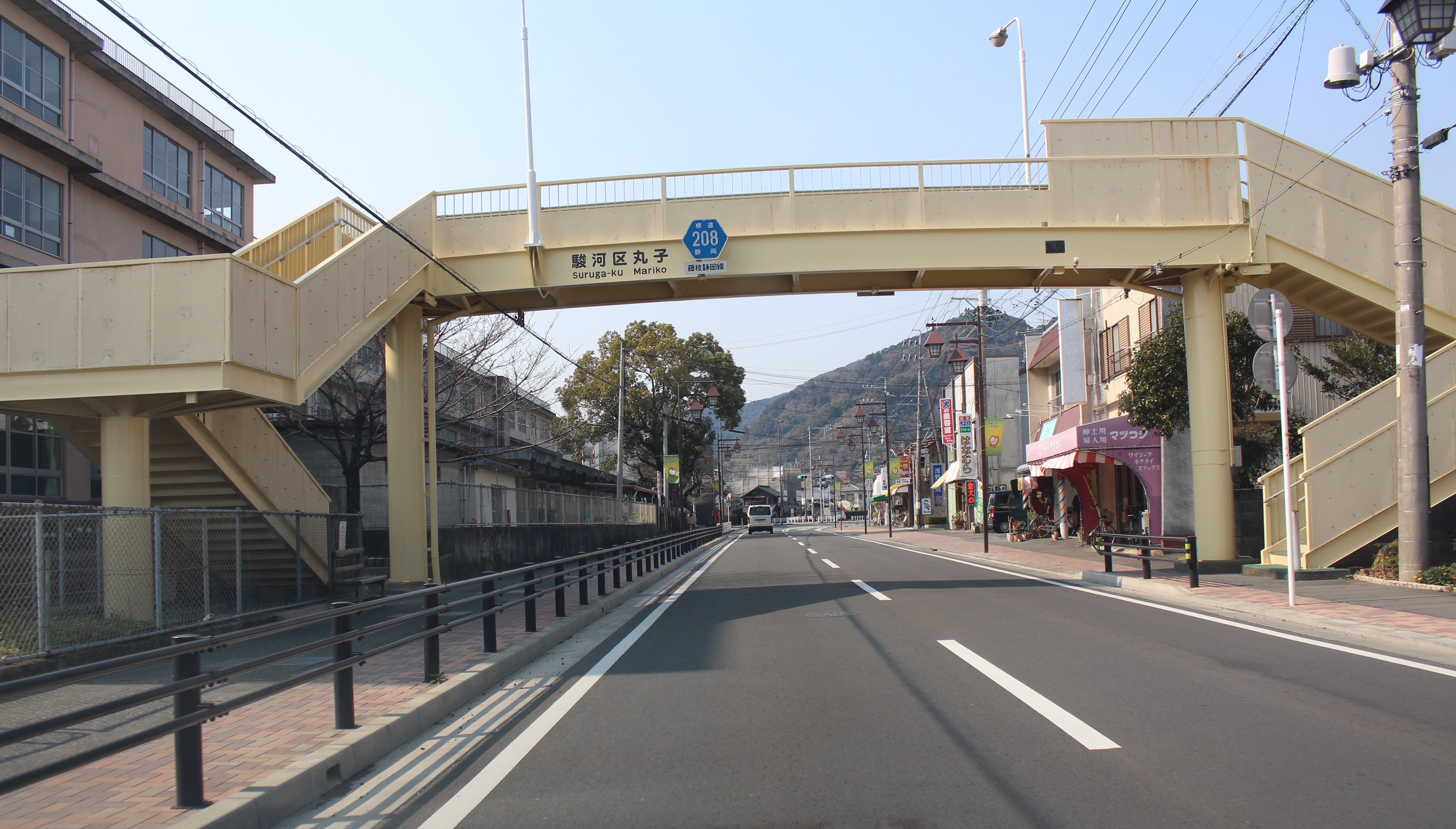 Footbridge over Shizuoka Prefectural Road Route 208 in Maruko, Suruga-ku, Shizuoka city, Shizuoka prefecture, Japan.